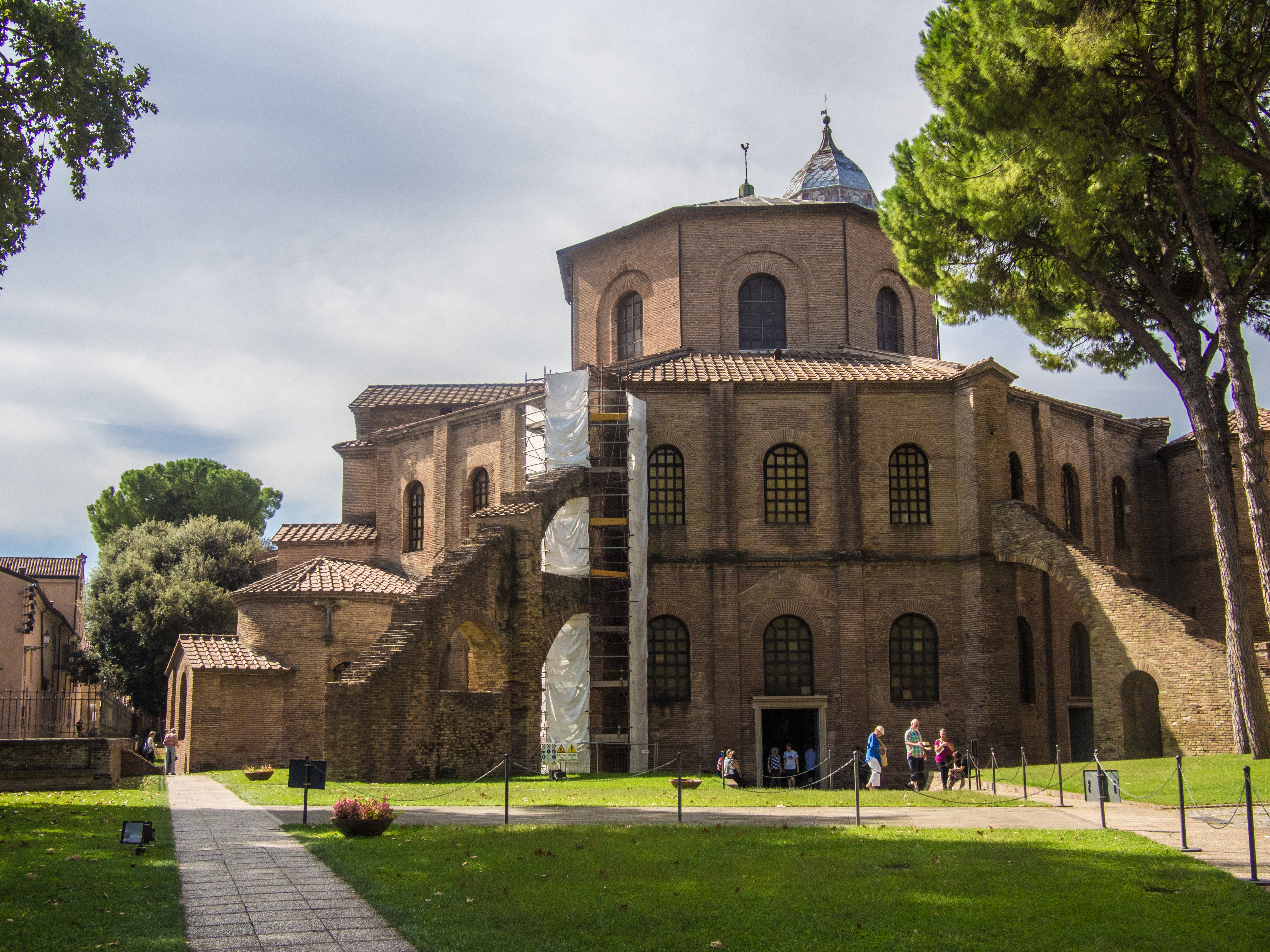 Ravenna - Basilica of San Vitale - building back